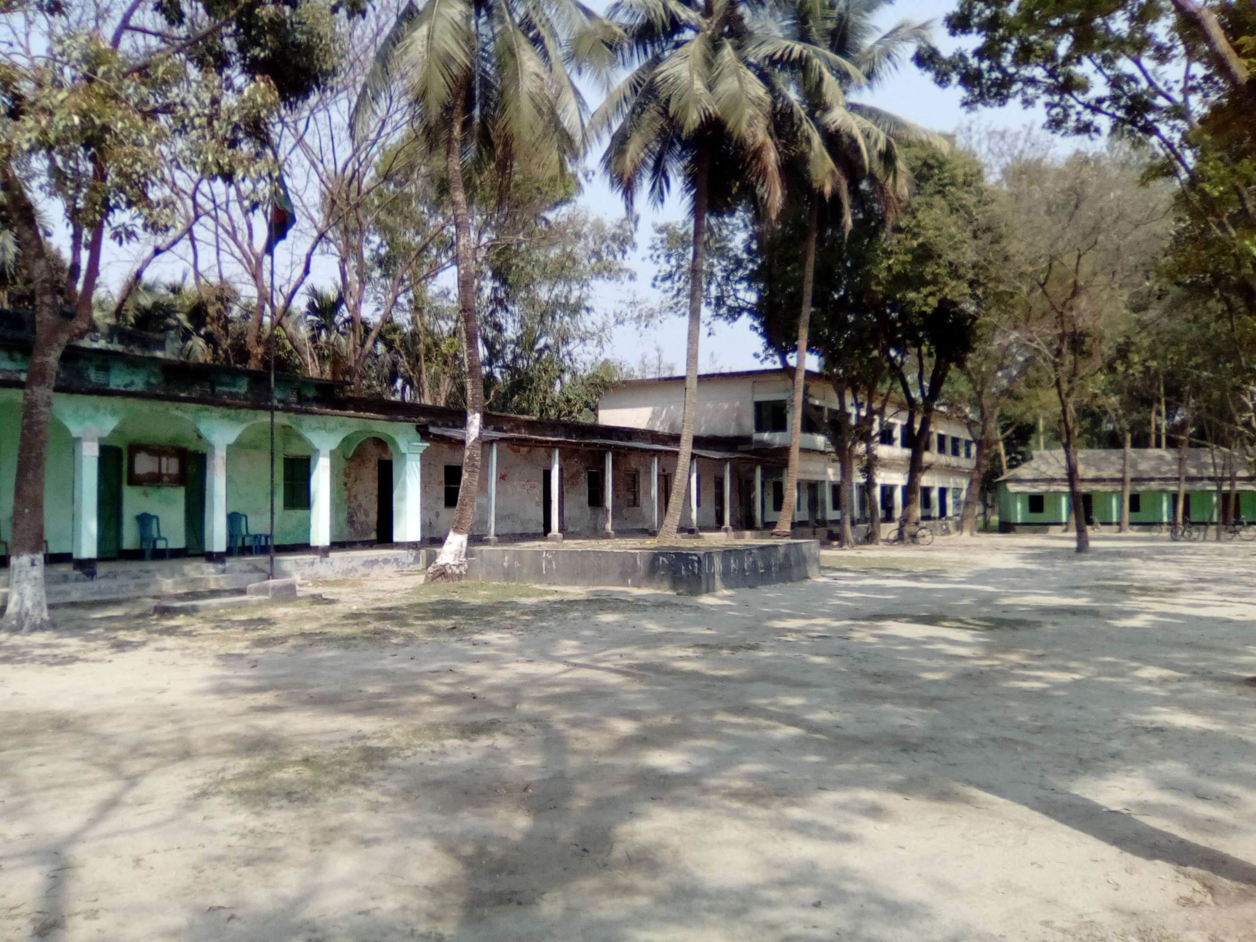 Corner View